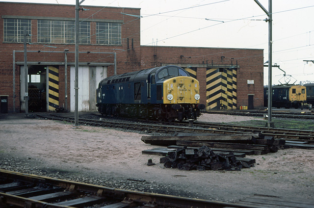 Reddish Loco Depot